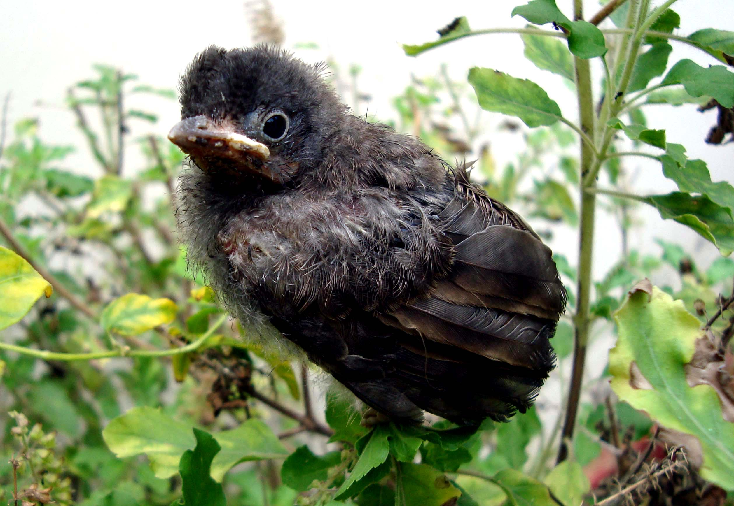 Pycnonotus cafer - Young Red-vented Bulbul